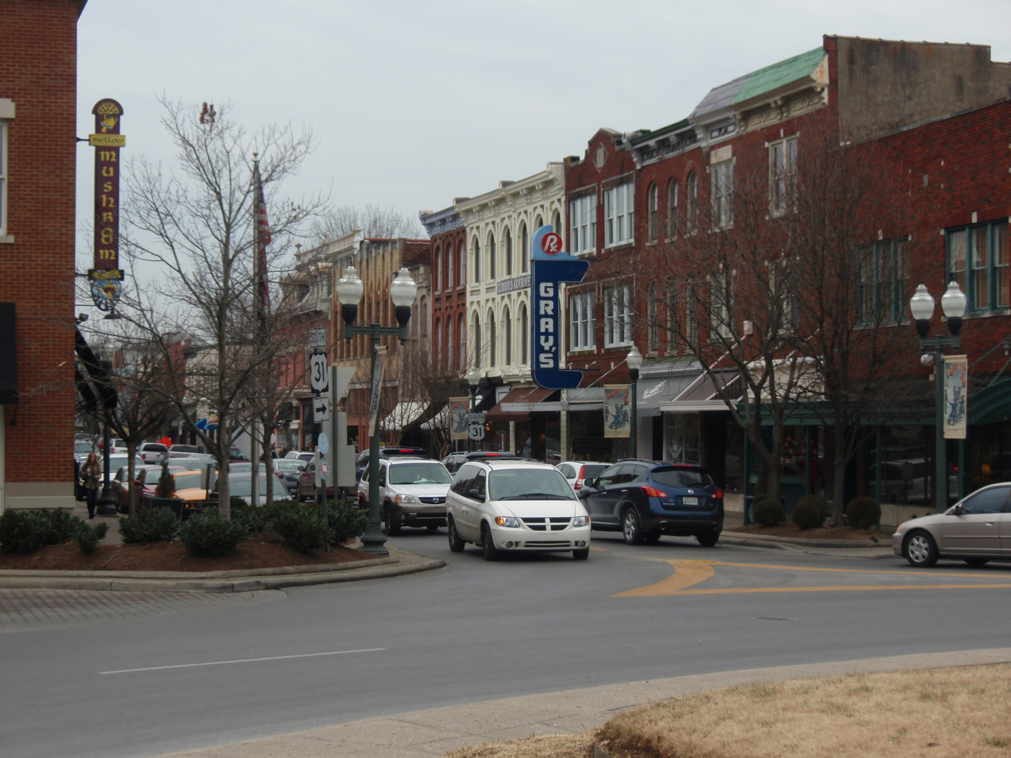 Downtown Franklin Historical District - Tennessee